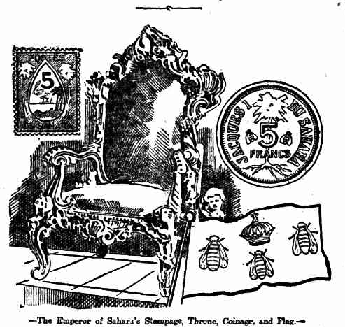 Illustration from "The Western Mail" (Perth,W.A:1885-1954) Saturday 27 February 1904 pge 44 titled "The Emperor of the Sahara's Stampage, Throne, Coinage and Flag" from the article "A modern Napoleon-Jacques Lebaudy"